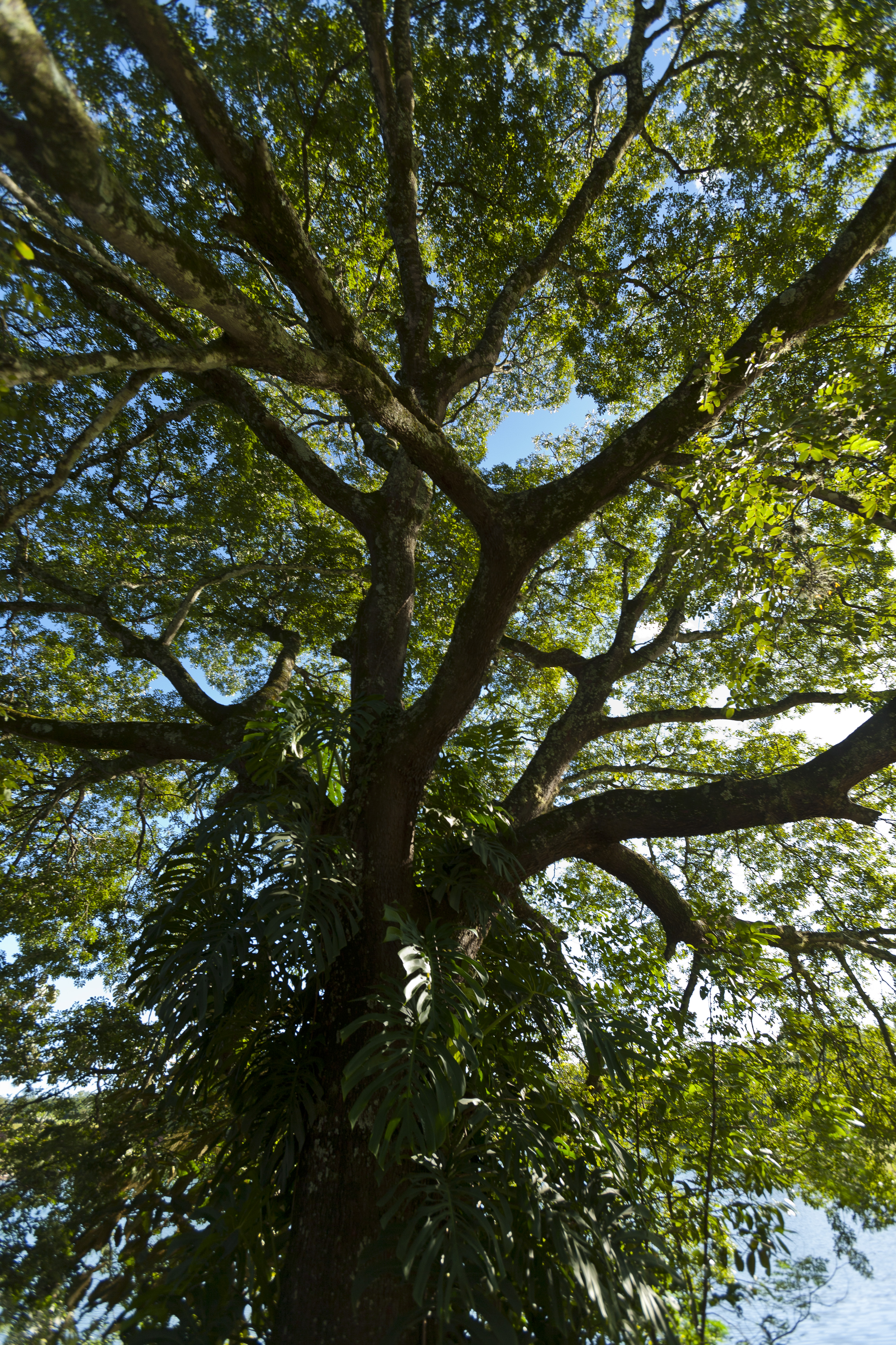 Copaiba is a stimulant oleoresin obtained from the trunk of several pinnate-leaved South American leguminous trees (genus Copaifera). The thick, transparent exudate varies in color from light gold to dark brown, depending on the ratio of resin to essential oil. Copaiba is used in making varnishes and lacquers.